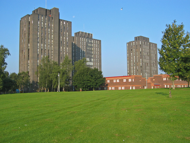 University of Essex Tall 1960s buildings in Wivenhoe Park.